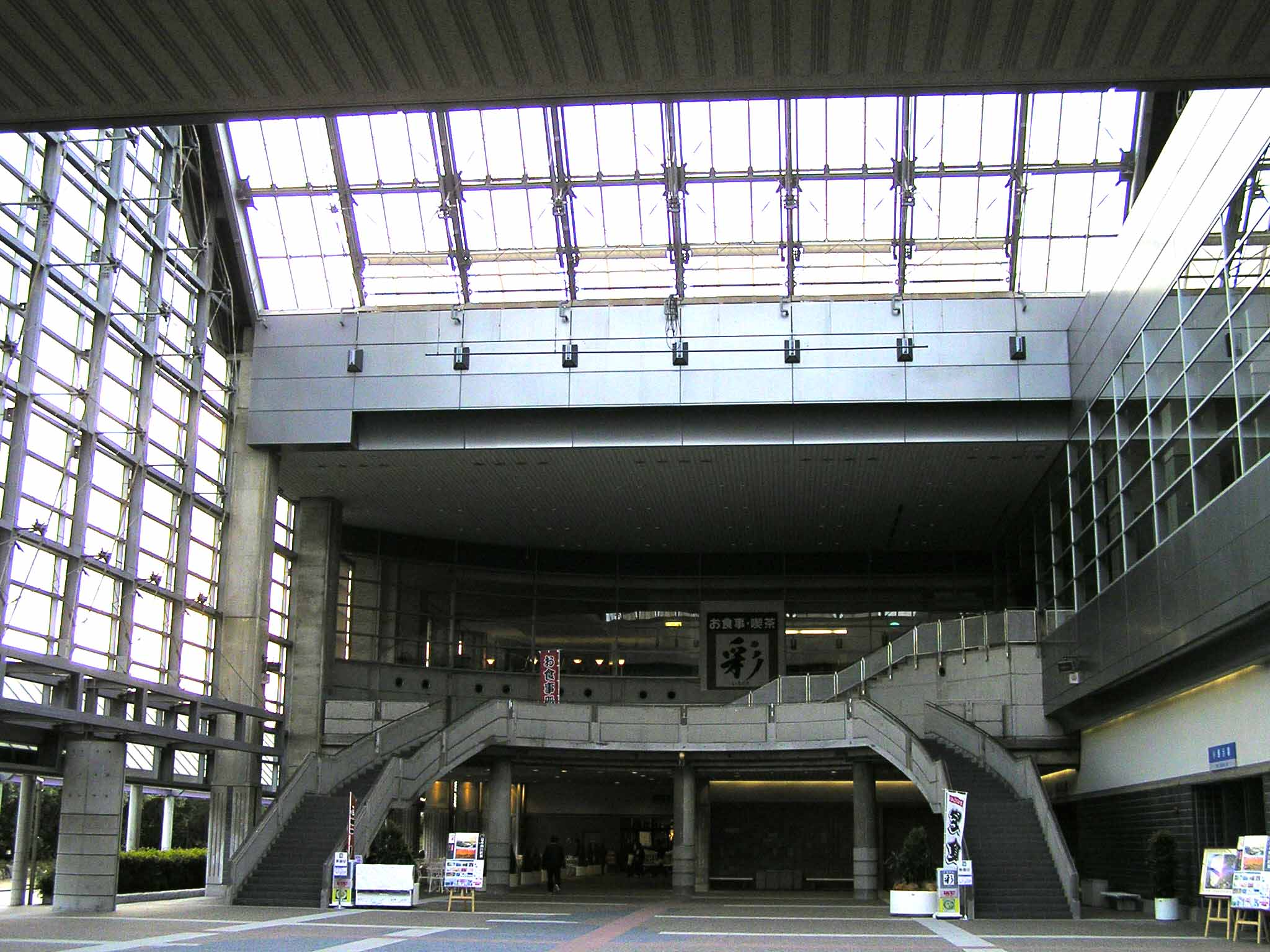 Exchange plaza in Convex Okayama